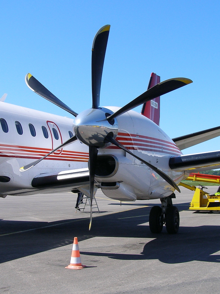 The engine of a Saab 2000. Aircraft: SE-LOG, Golden Air.